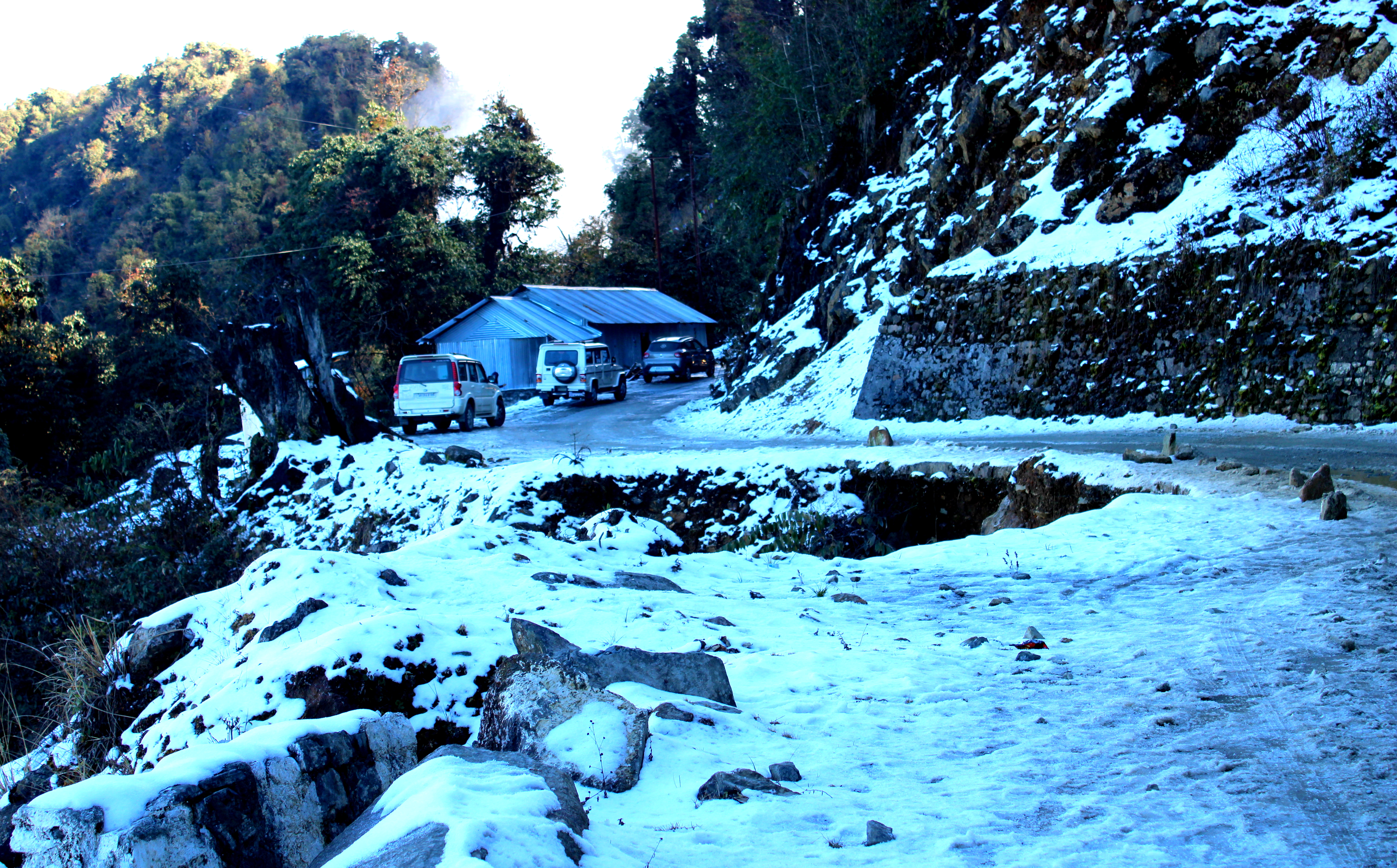 mayodia 7